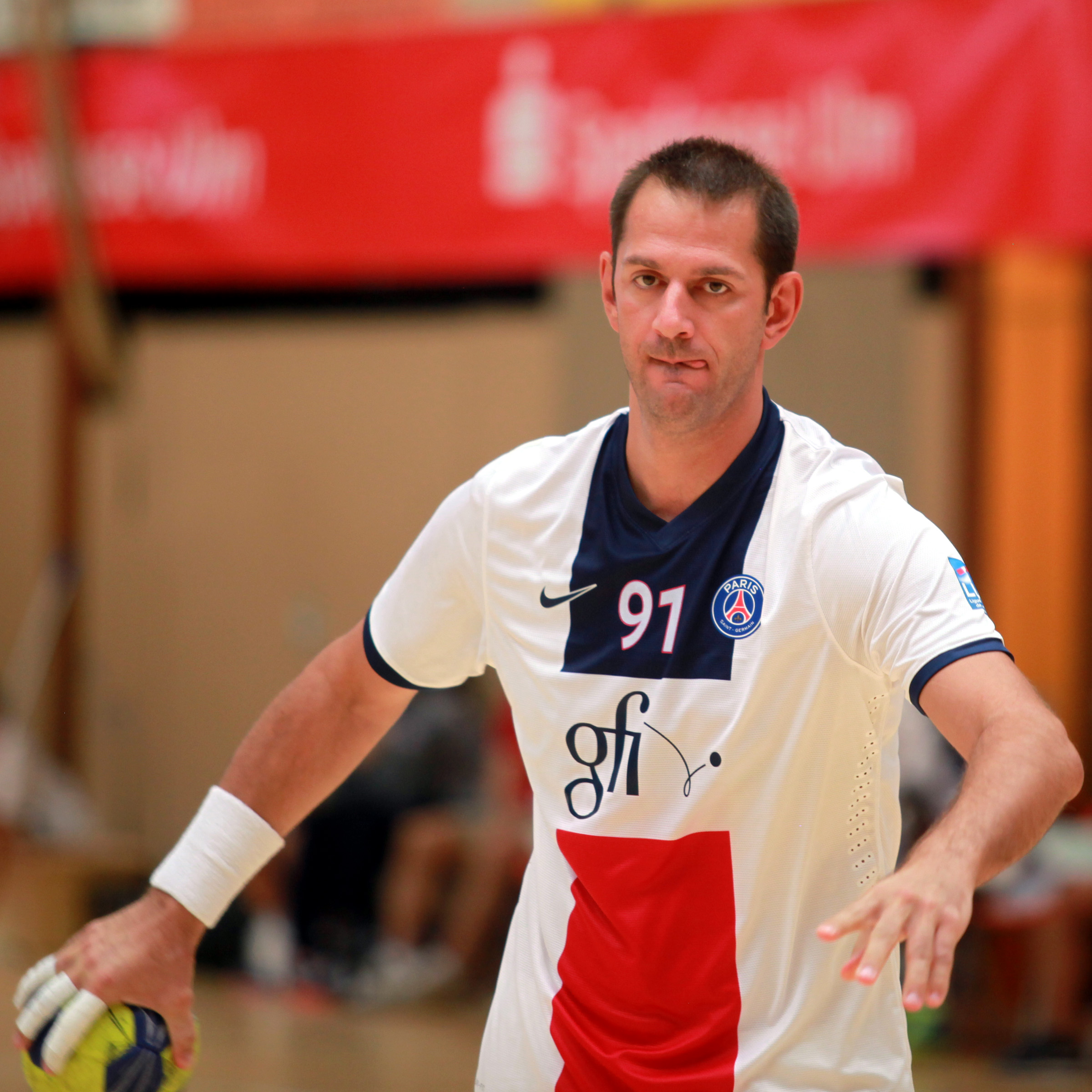 Mladen Bojinović, on August 17th, 2012 in Ehingen (Germany), during the Sparkassen Cup (formerly known as Schlecker Cup).